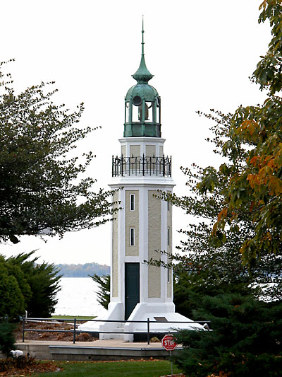 Rockwell Lighthouse. aka Bray's Point Lighthouse